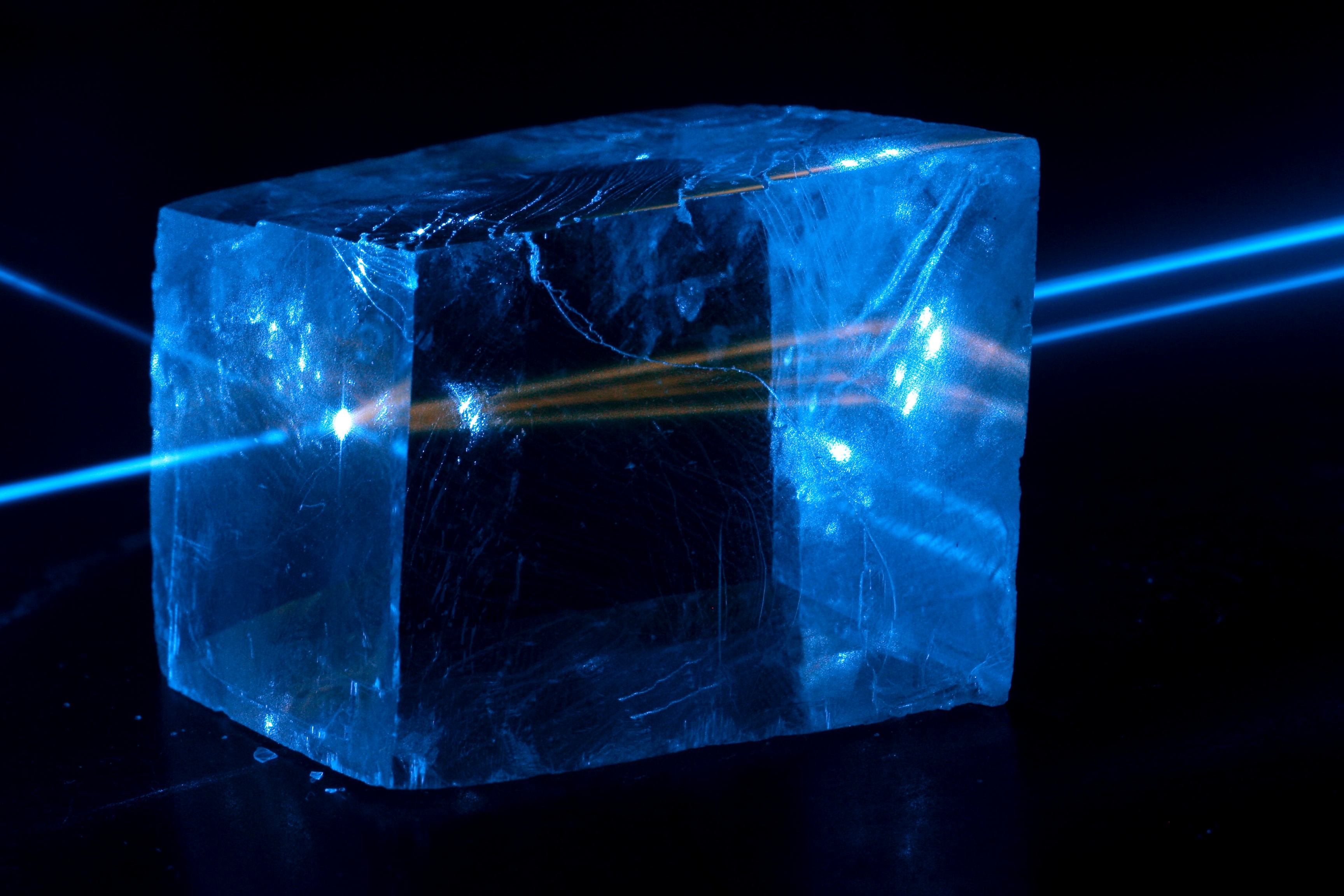 Fluorescence and birefringence of 445 nm laser in calcite crystal